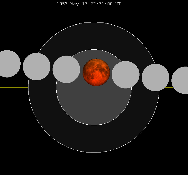 May 1957 lunar eclipse chart of moon's path through the earth's shadow. thumb